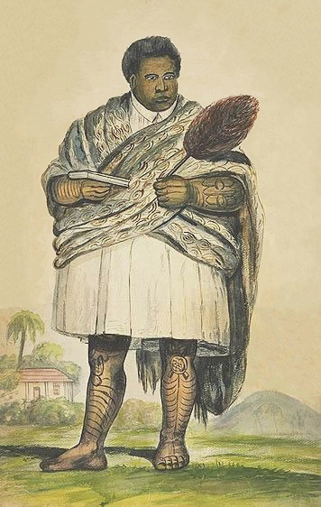 Makea Pori ariki of Teauotonga (Rarotonga) holding the bible in his right hand.